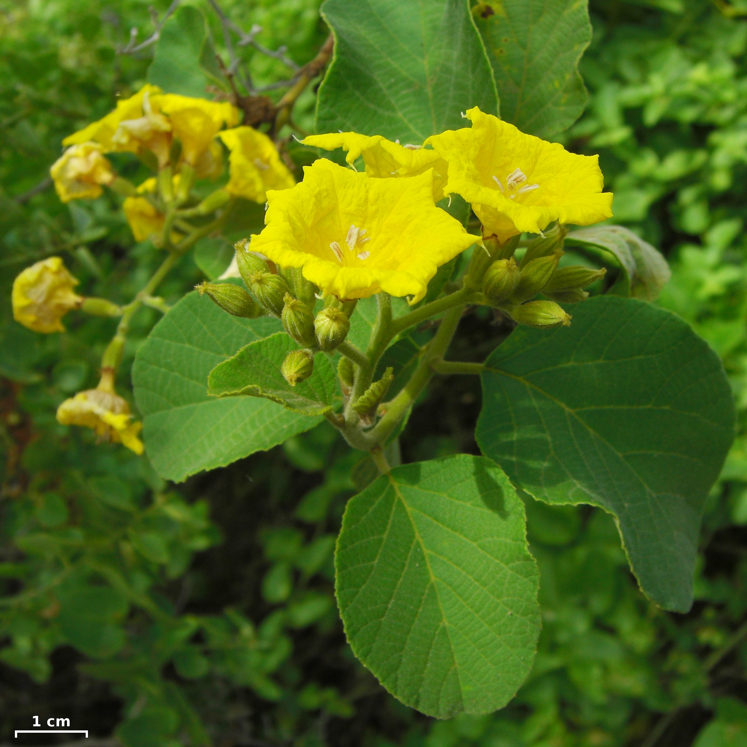 Cordia lutea Charles Darwin Station, Santa Cruz Island, Galápagos, 20130129-30